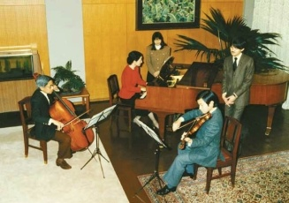 A family concert, with Akihito playing the cello, Michiko playing the piano, and Naruhito playing the violin